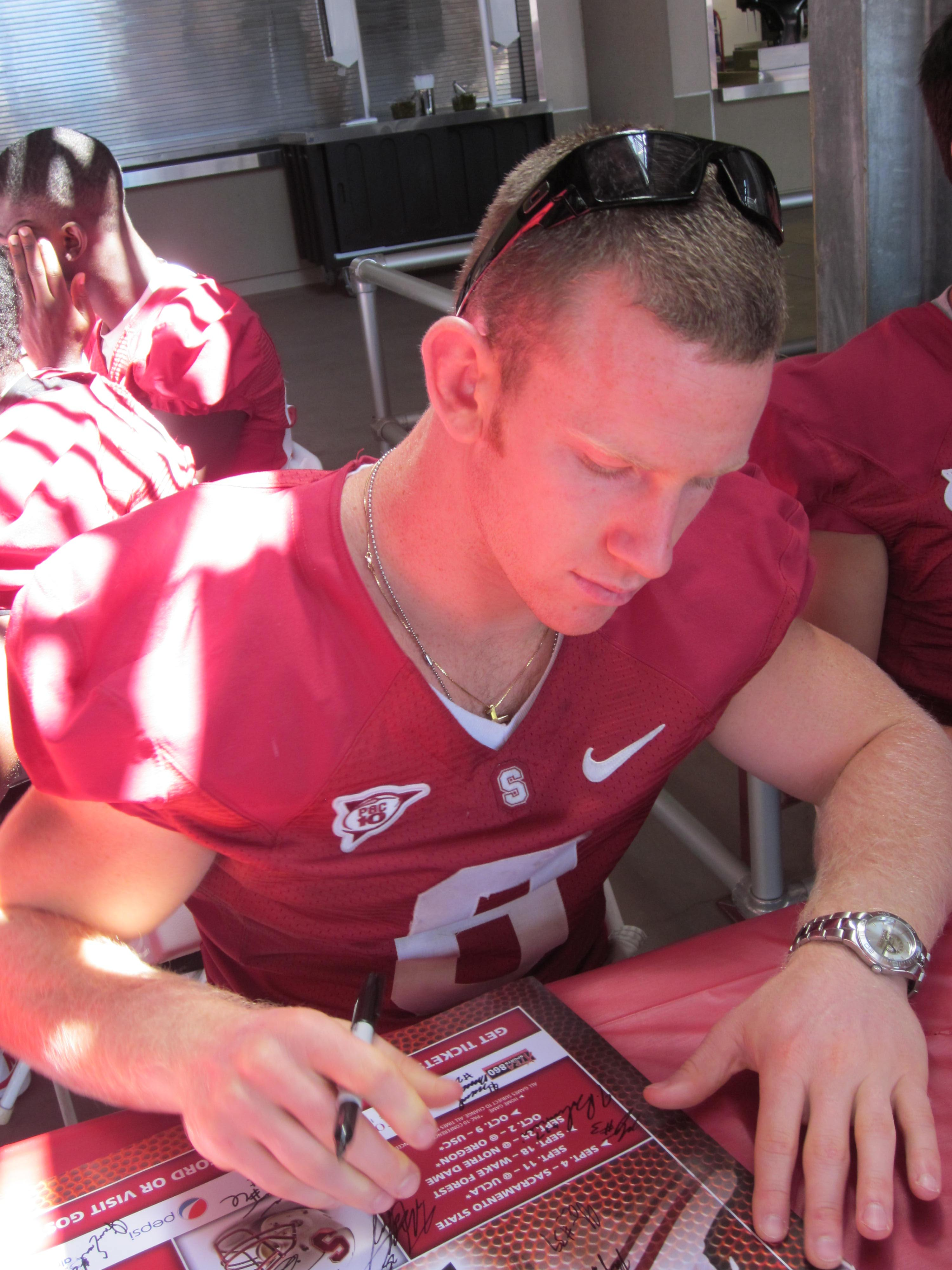 Stanford wide receiver Ryan Whalen at the football open house at Stanford Stadium.